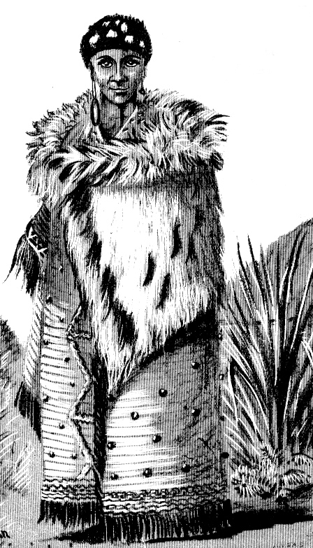 A Māori woman of the Ngāti Mahuta tribe, Waikato, New Zealand, 19th century